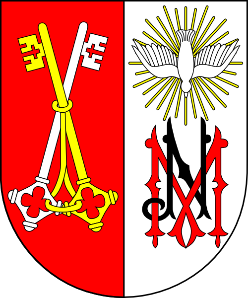 Coat of arms (shield only) of Eduard Jan Nepomuk Brynych, bishop of Hradec Králové, Czech Republic (1893 - 1902). Based on 1893 armorial deed.